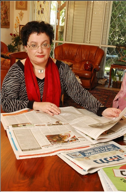 Marina Solodkin at her home